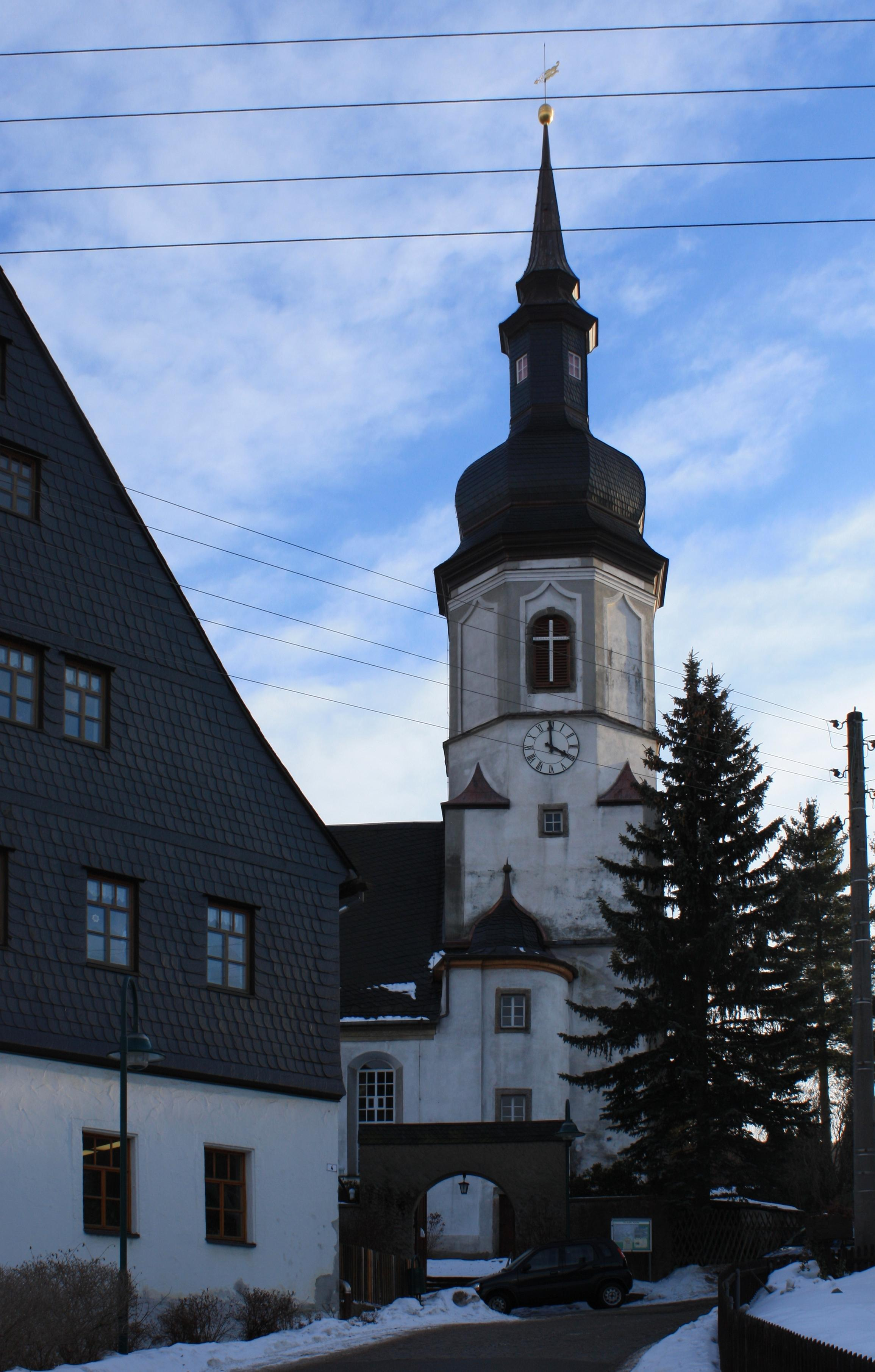 Bockau church